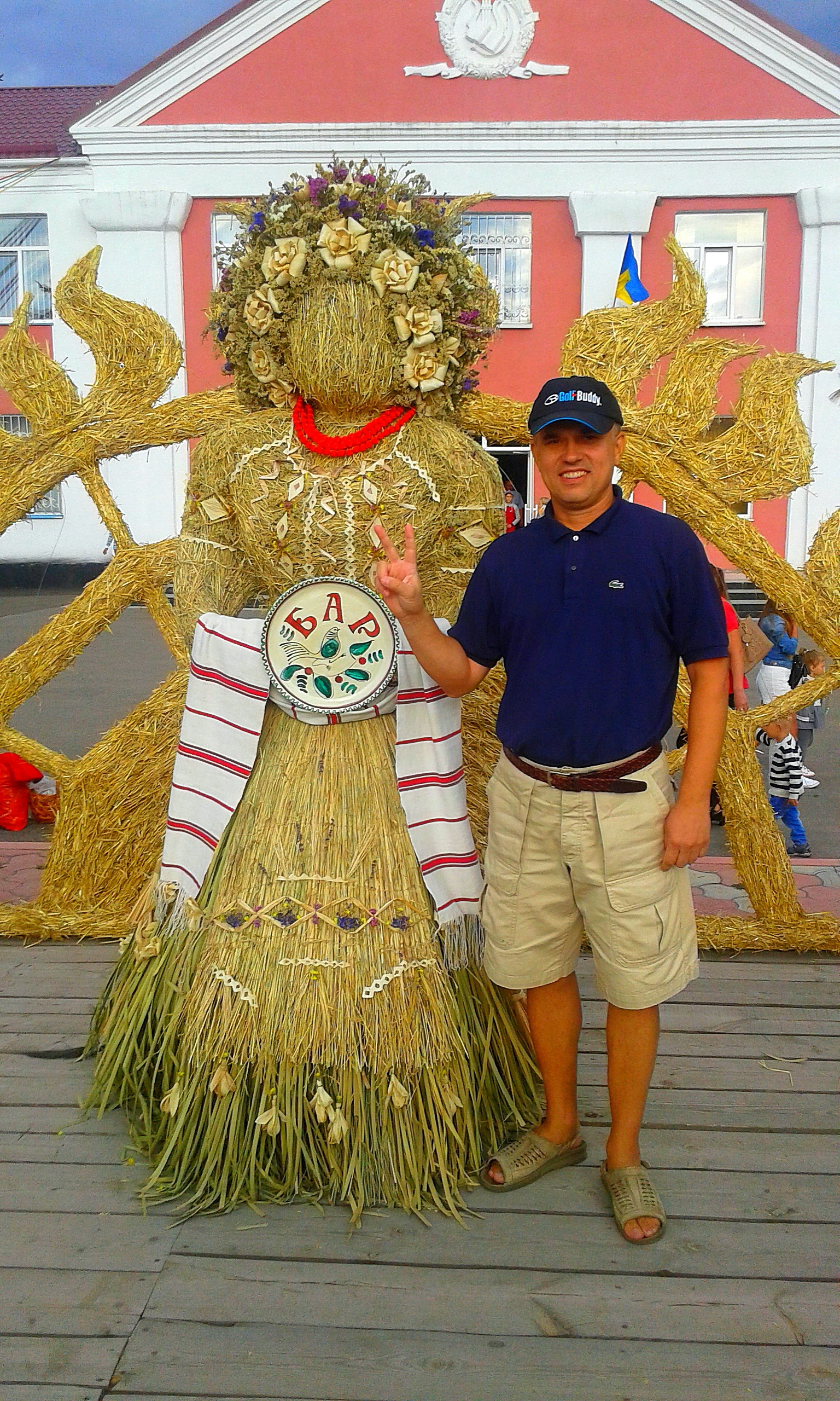 UKRAINIAN FOLKLORE FESTIVAL IN CITY OF BAR REGION OF VINNYTSIA STATE OF UKRAINE 20170824